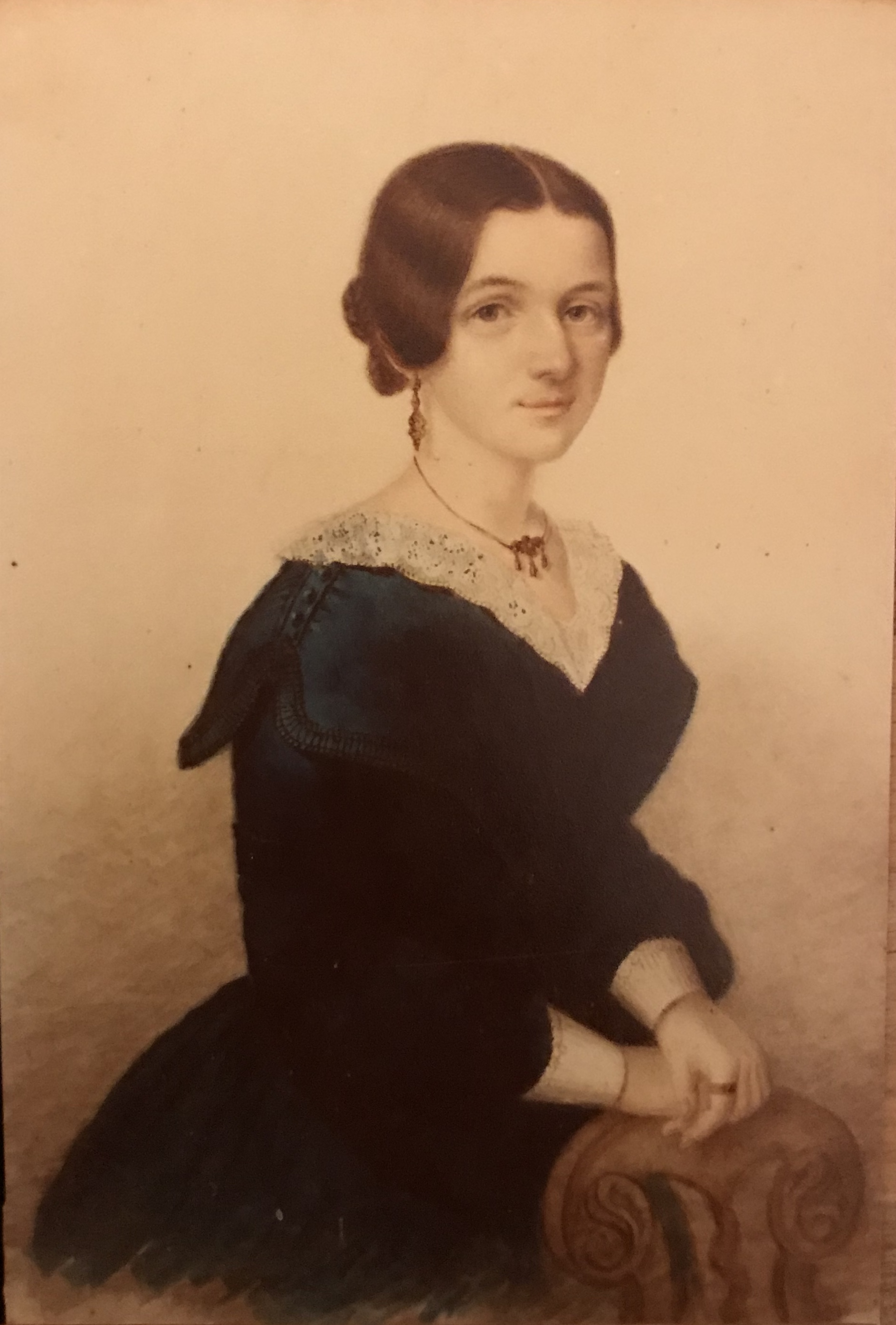 Amalie Bronzetti